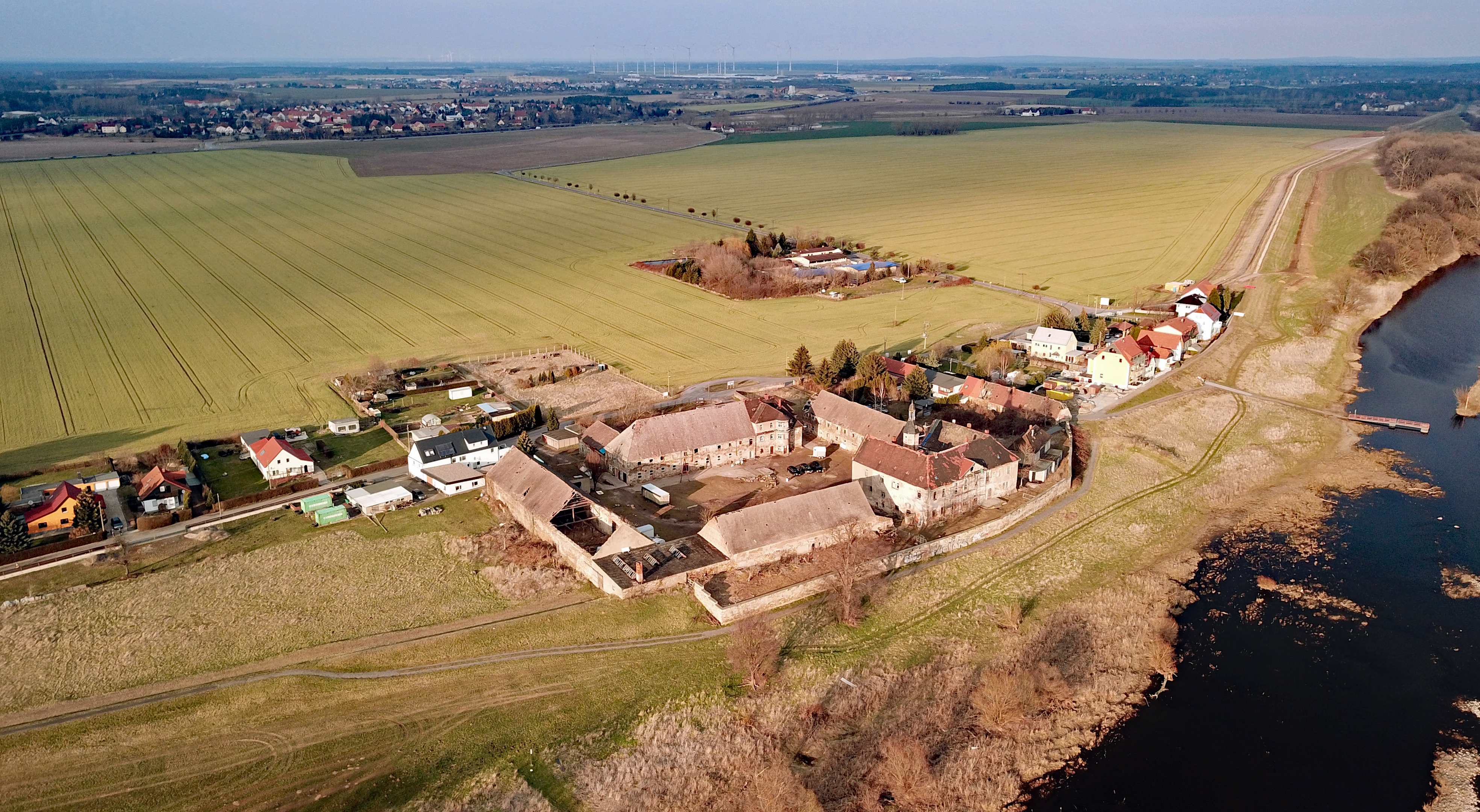 Promnitz (Zeithain, Saxony, Germany)